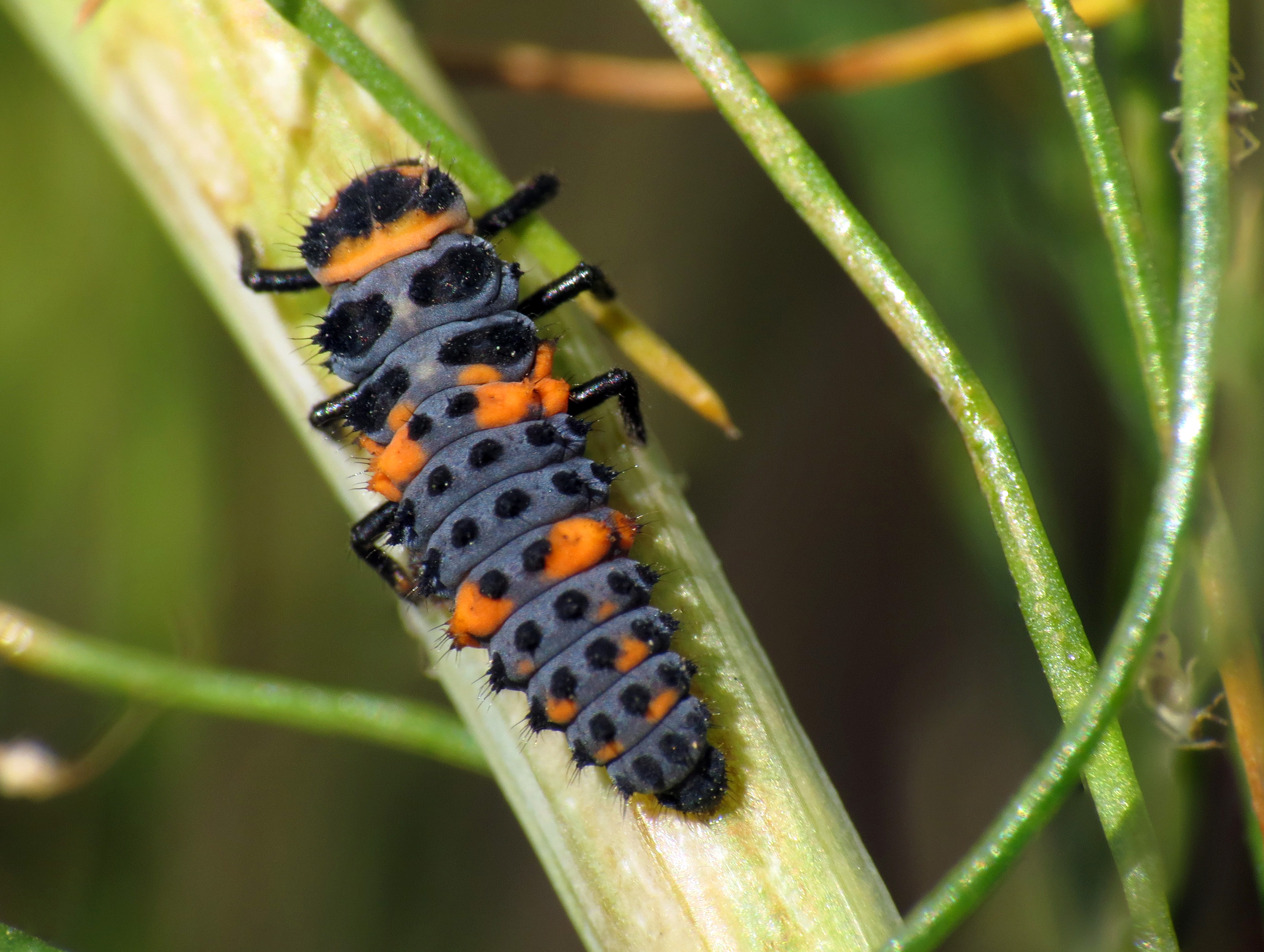 I think this a Hippodamia convergens larva, because there were lots of adults of this species in the garden, and I didn't see any other lady beetles around. Rincon Heights Community Garden, Tucson, Arizona, USA.